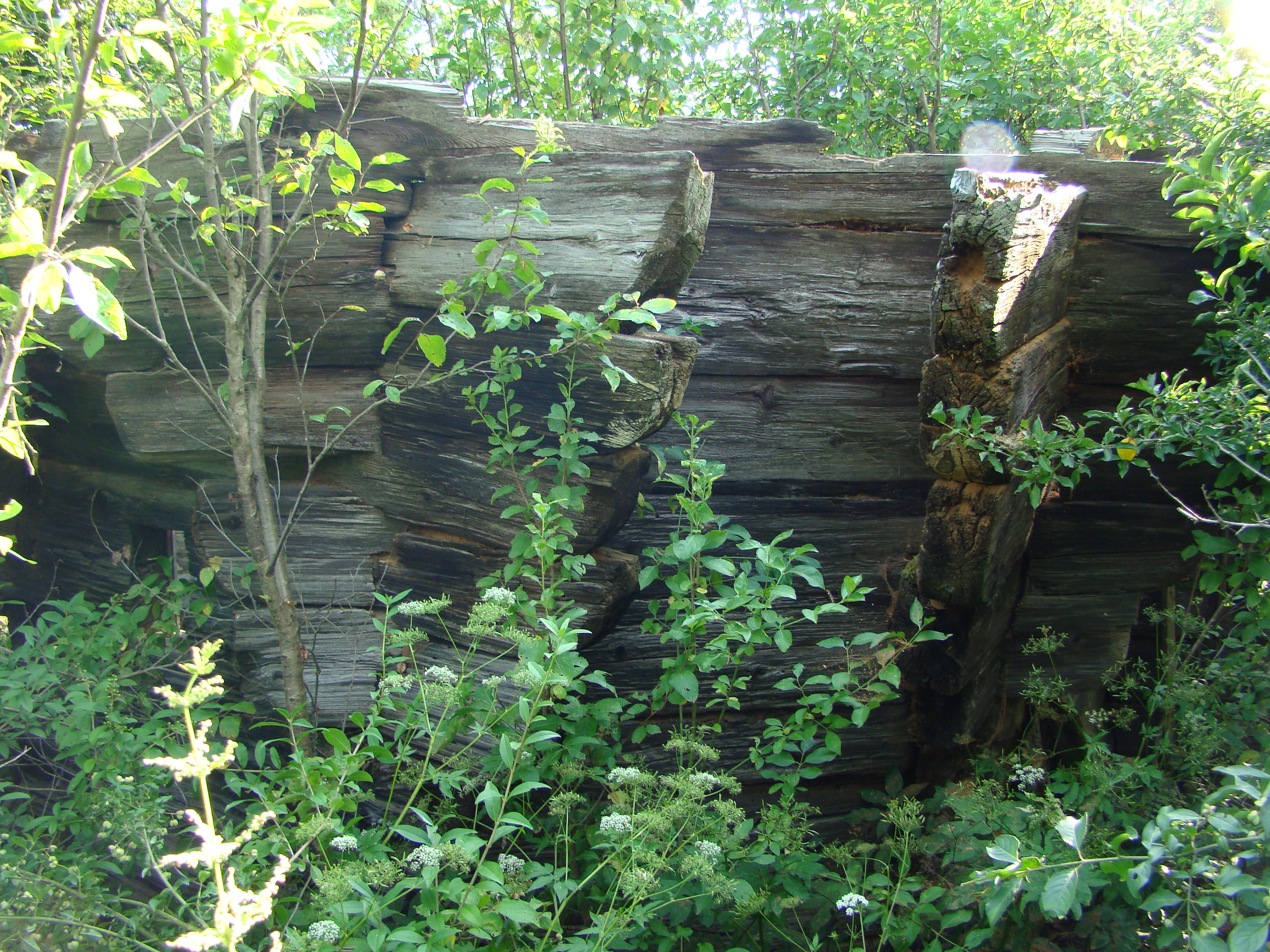 Wooden Curch in Șieu Sfântu, Bistrița-Năsăud county